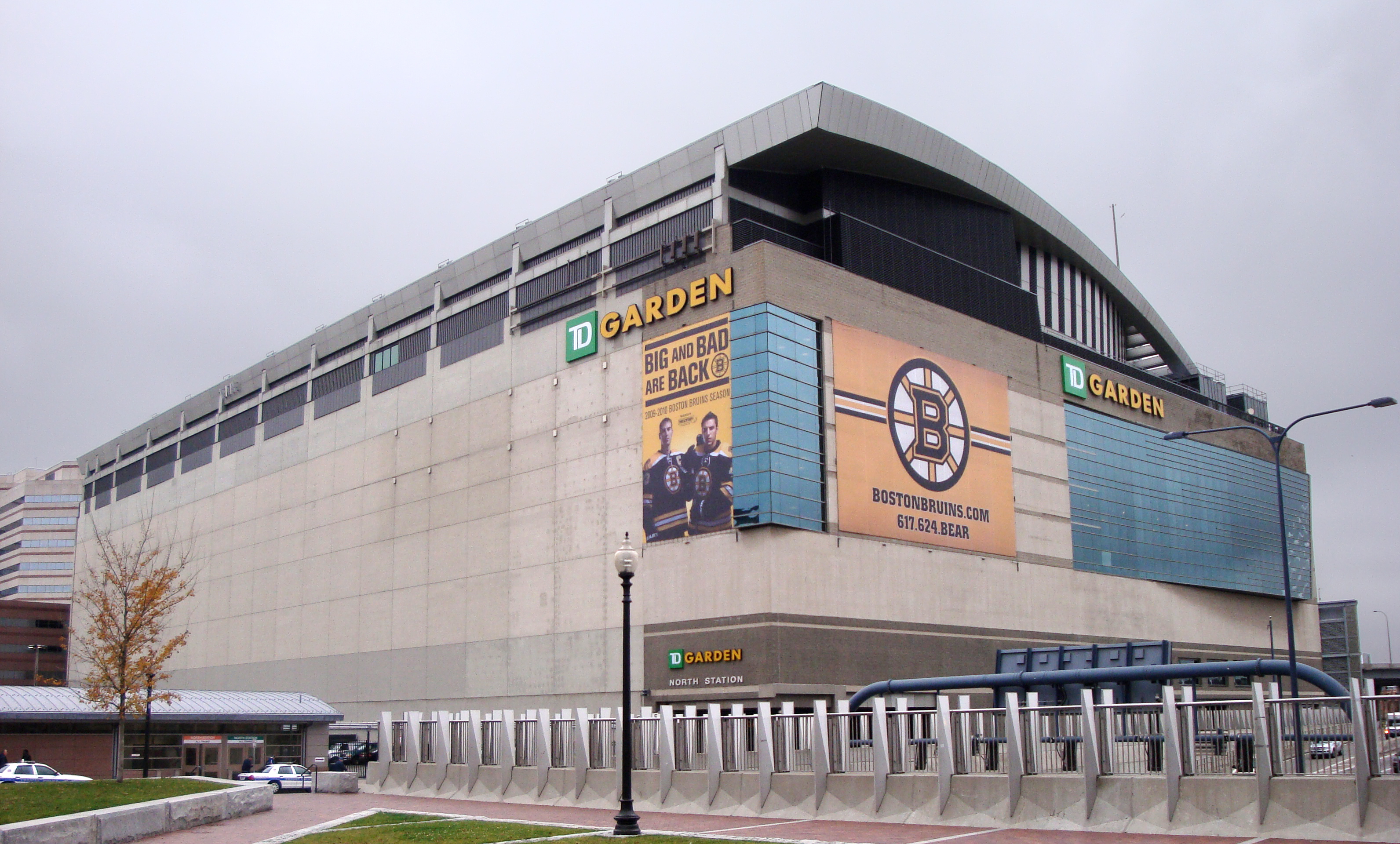 TD Garden in Boston, Massachusetts from the Rose Kennedy Greenway.